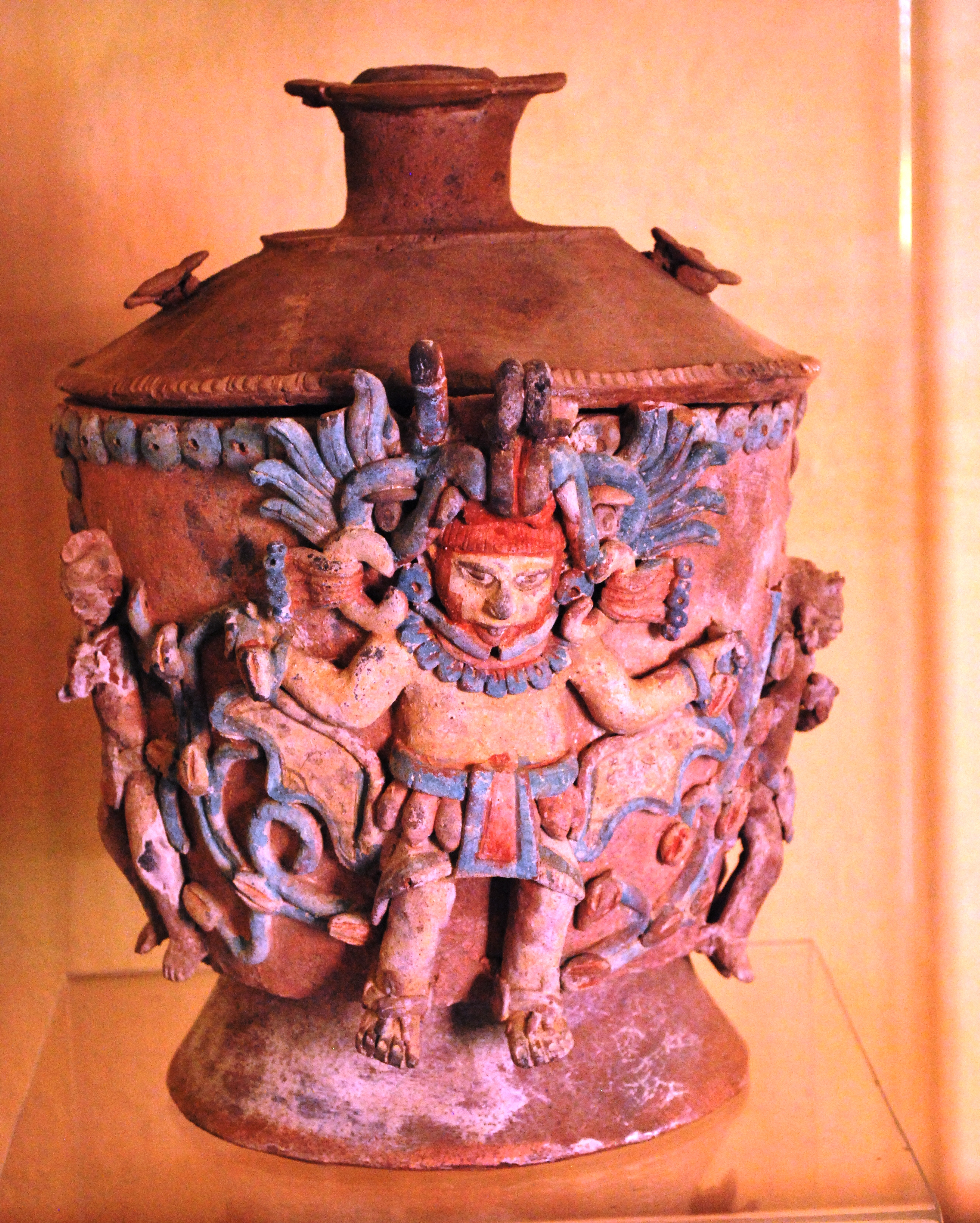 Funeral urn from 700-900 CE from Cacaxtla at the Tlaxcala Regional Museum